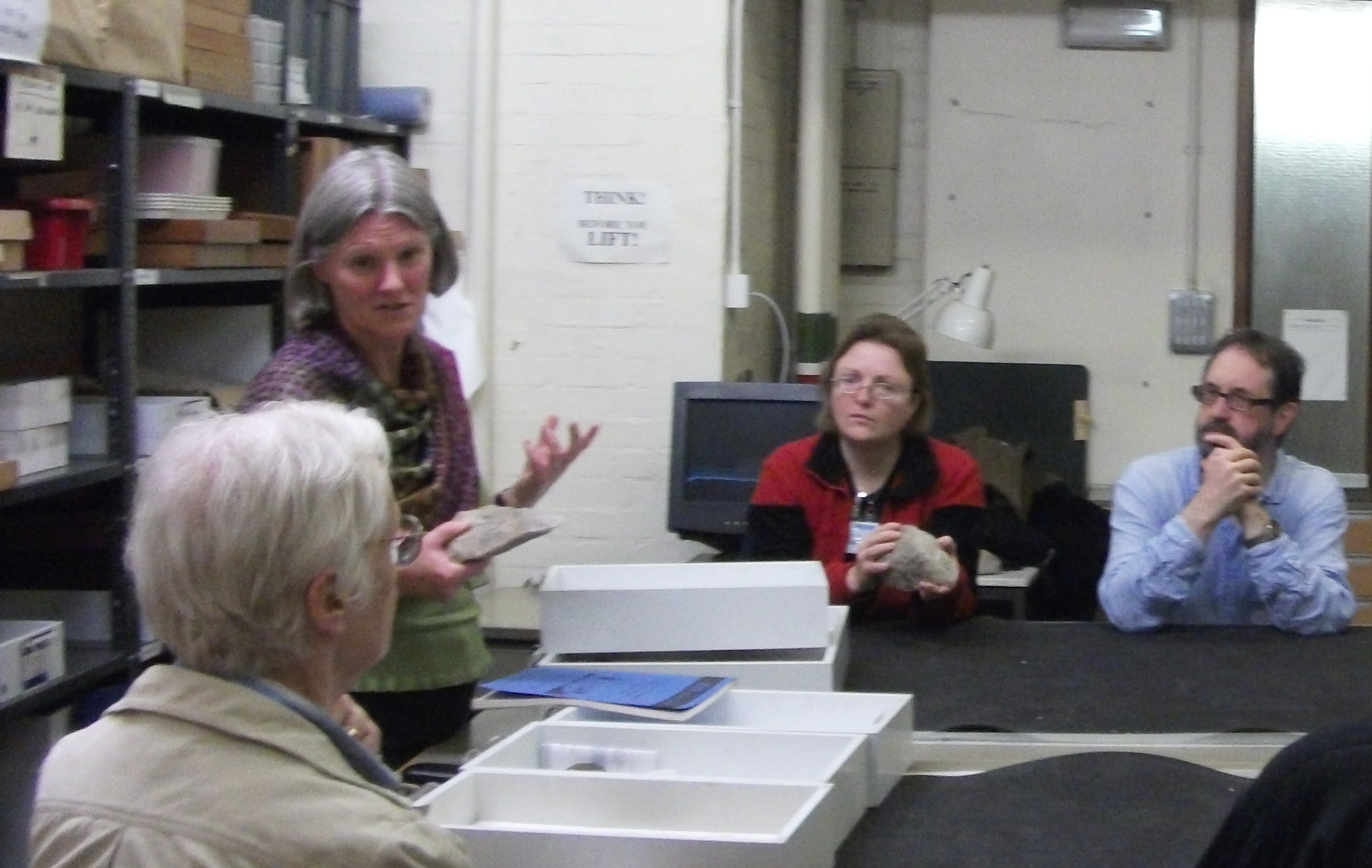 Behind the Scenes Event- October 13th, 2011 This was a full-day event to encourage participation in the Wikipedia:GLAM/BM/Ice Age art project to improve coverage of Ice Age art or the Art of the Upper Paleolithic on Wikipedia and the other Wikimedia projects, including the early history of the rediscovery and interpretation of these objects.